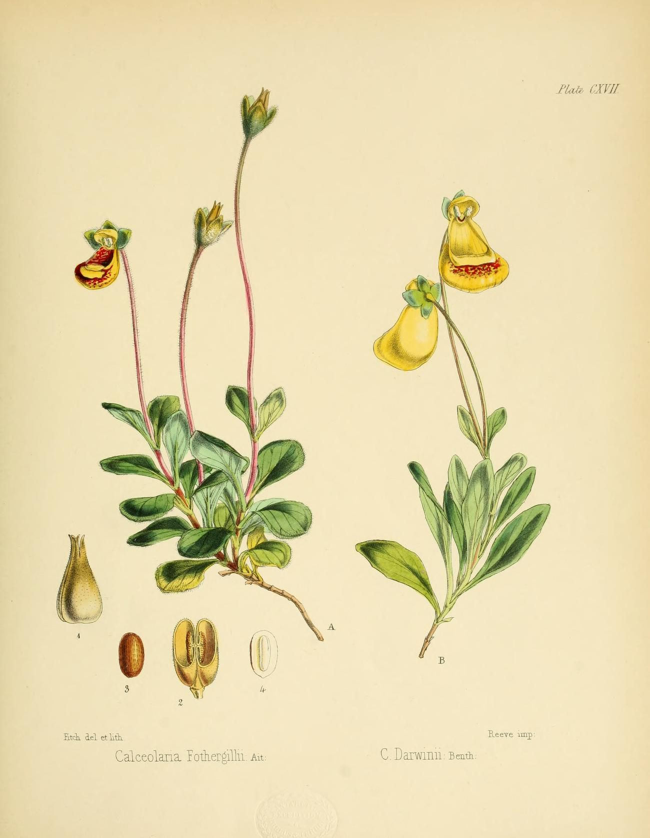 jpg of Plate CXVII of Hooker's Flora Antarctica. Calceolaria fothergillii Ait. and Calceolaria darwinii (now Calceolaria uniflora) Benth.